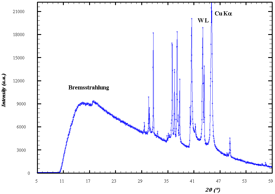 Emission spectrum of an old Cu X-ray tube